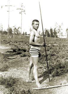 Young Lauri Pihkala